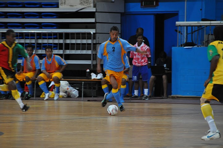 Tuvalu Futsal 01